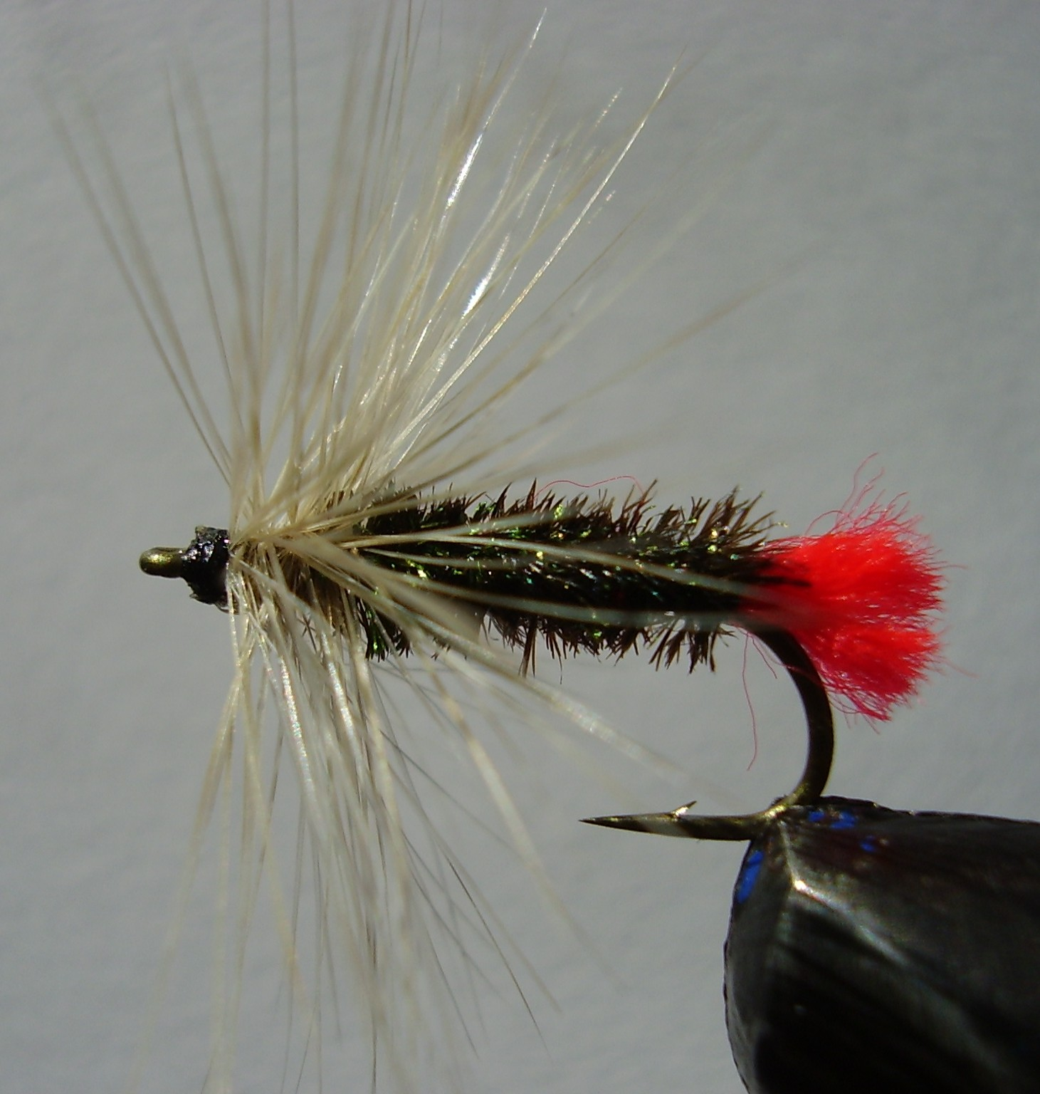 Red tag fly tied on No. 12 hook